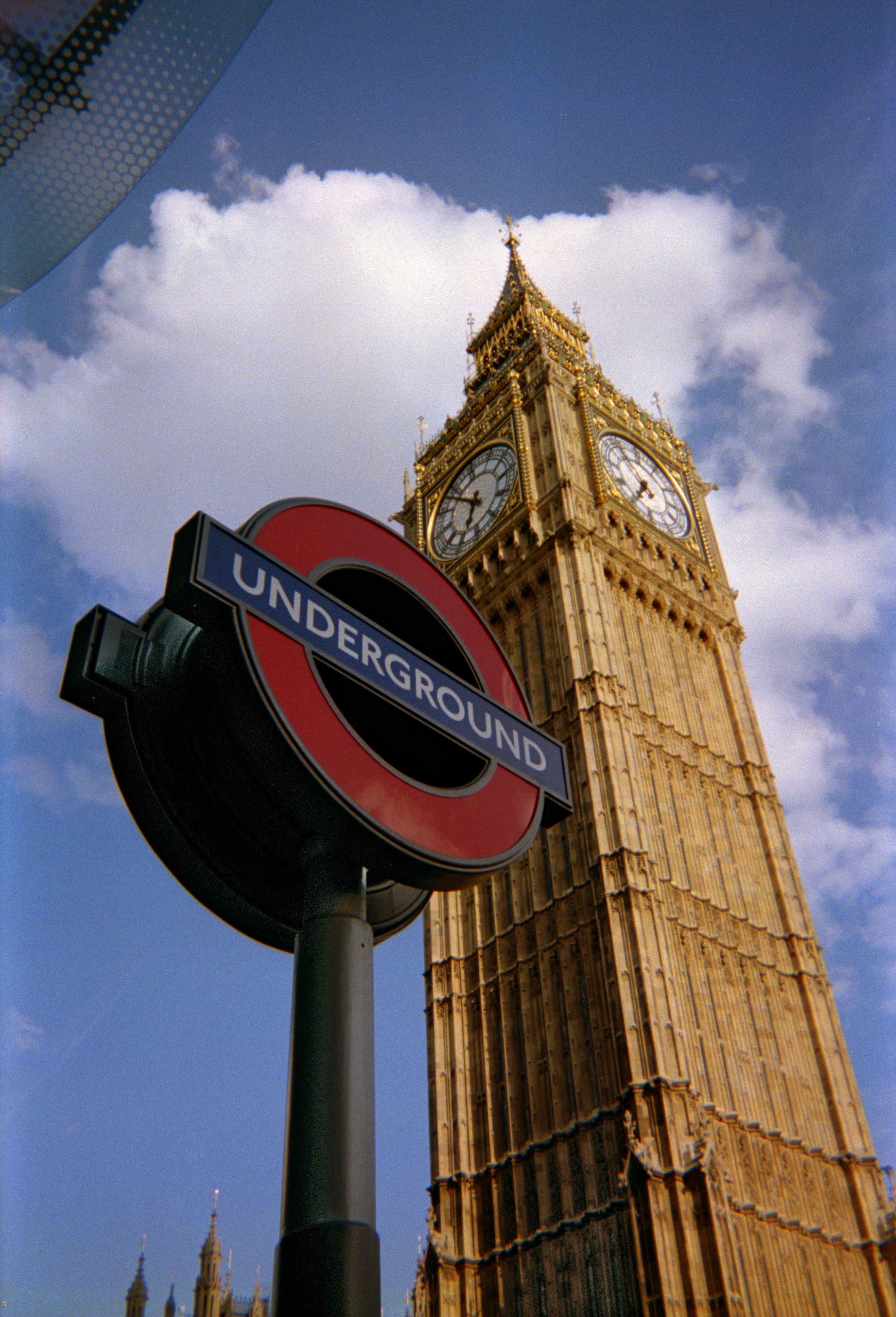 The London Underground sign for Westminster tube station against the Big Ben clock tower of the Houses of Parliament in 2002. (Time on clock-face 6:53 PM / 1853h)